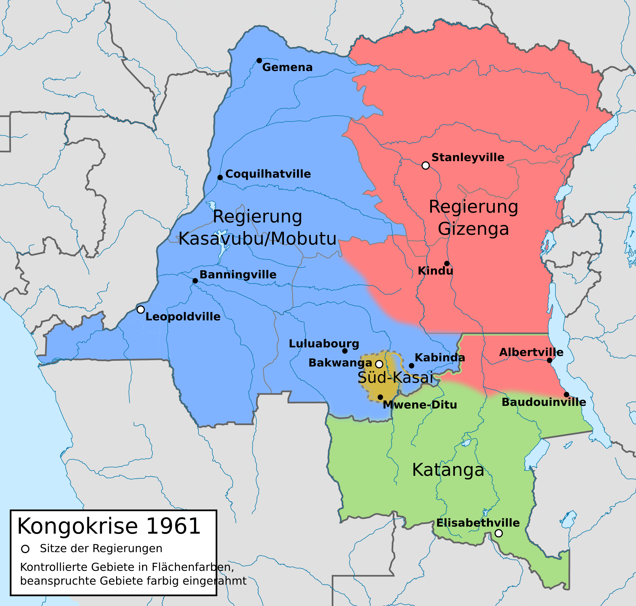 Map of Congo in 1961 (Congo crisis), in German.